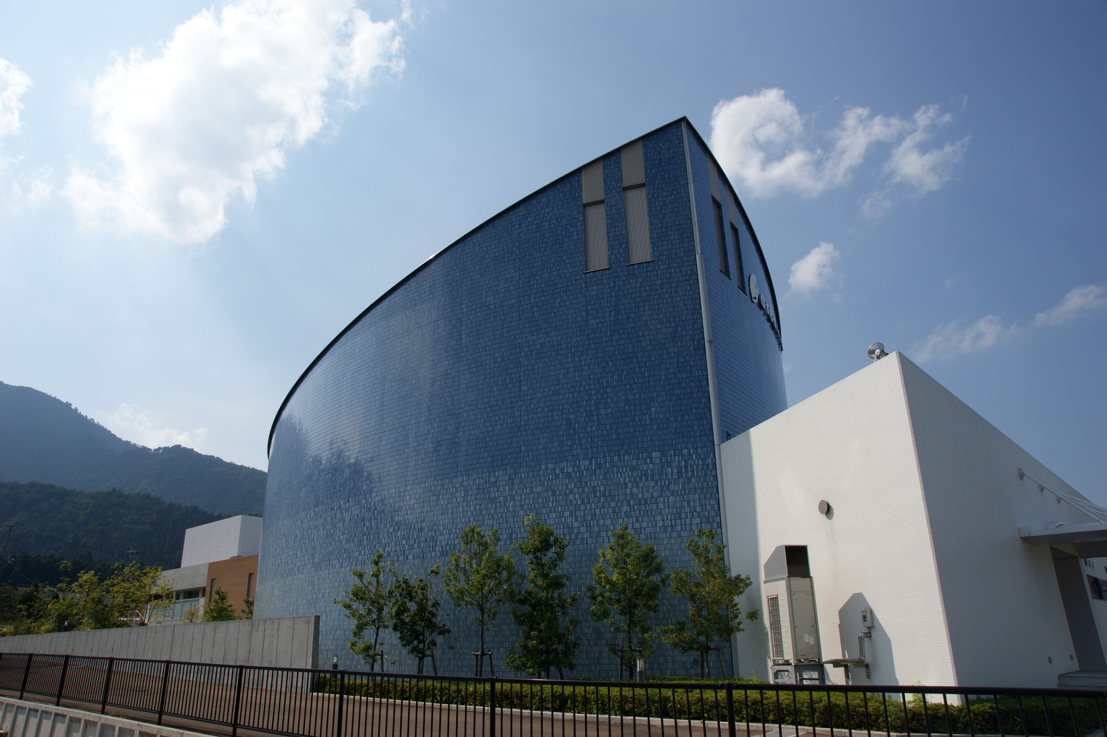 Parea Wakasa, Wakasa, Fukui prefecture, Japan